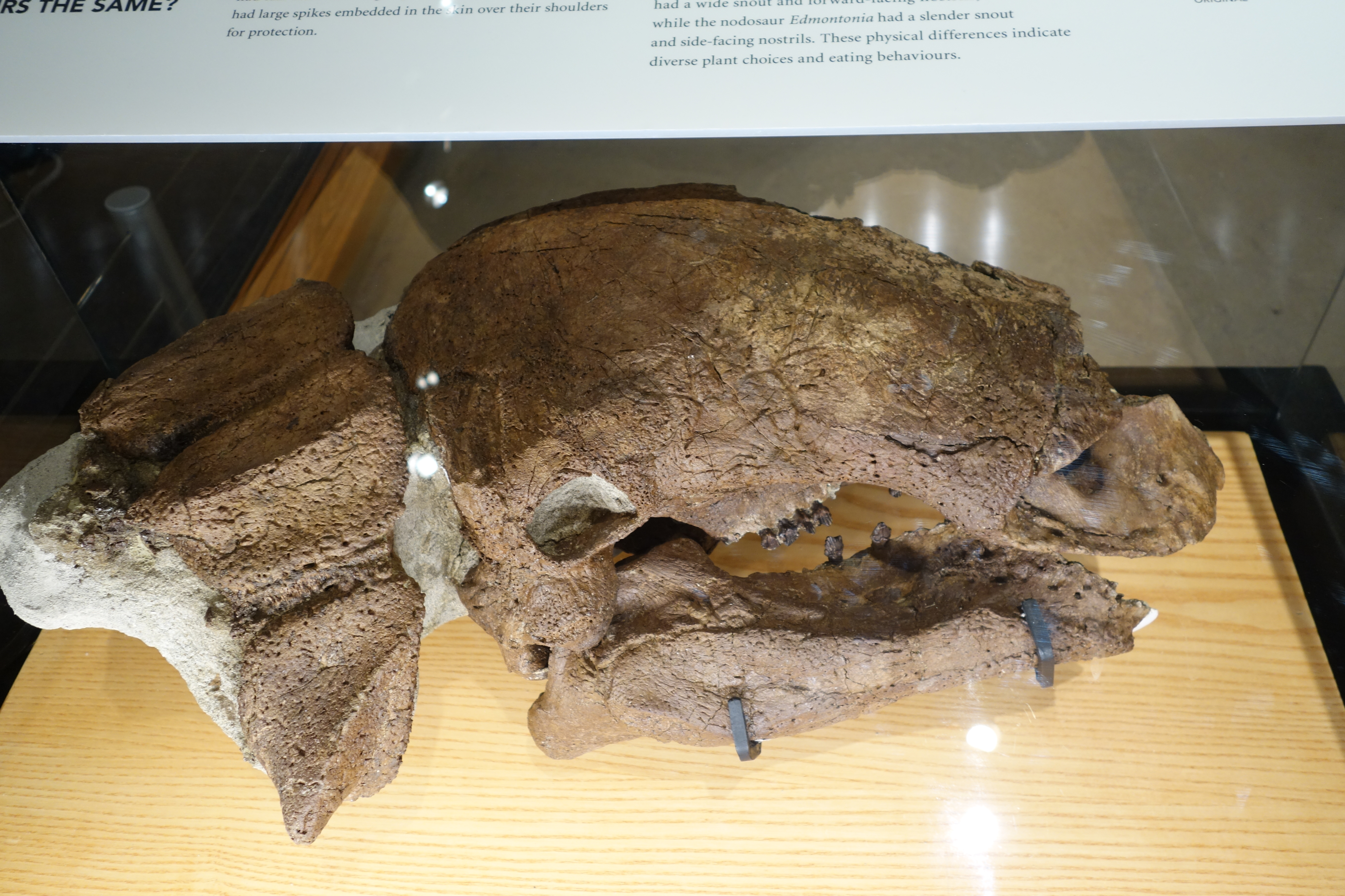 Edmontonia rugosidens skull (original). From the Dinosaur Park Formation, Dinosaur Provincial Park, Alberta. On display at the Royal Tyrrell Museum, Alberta, Canada.